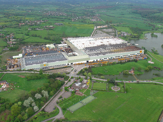 JCB Factory, Rocester, near Uttoxeter